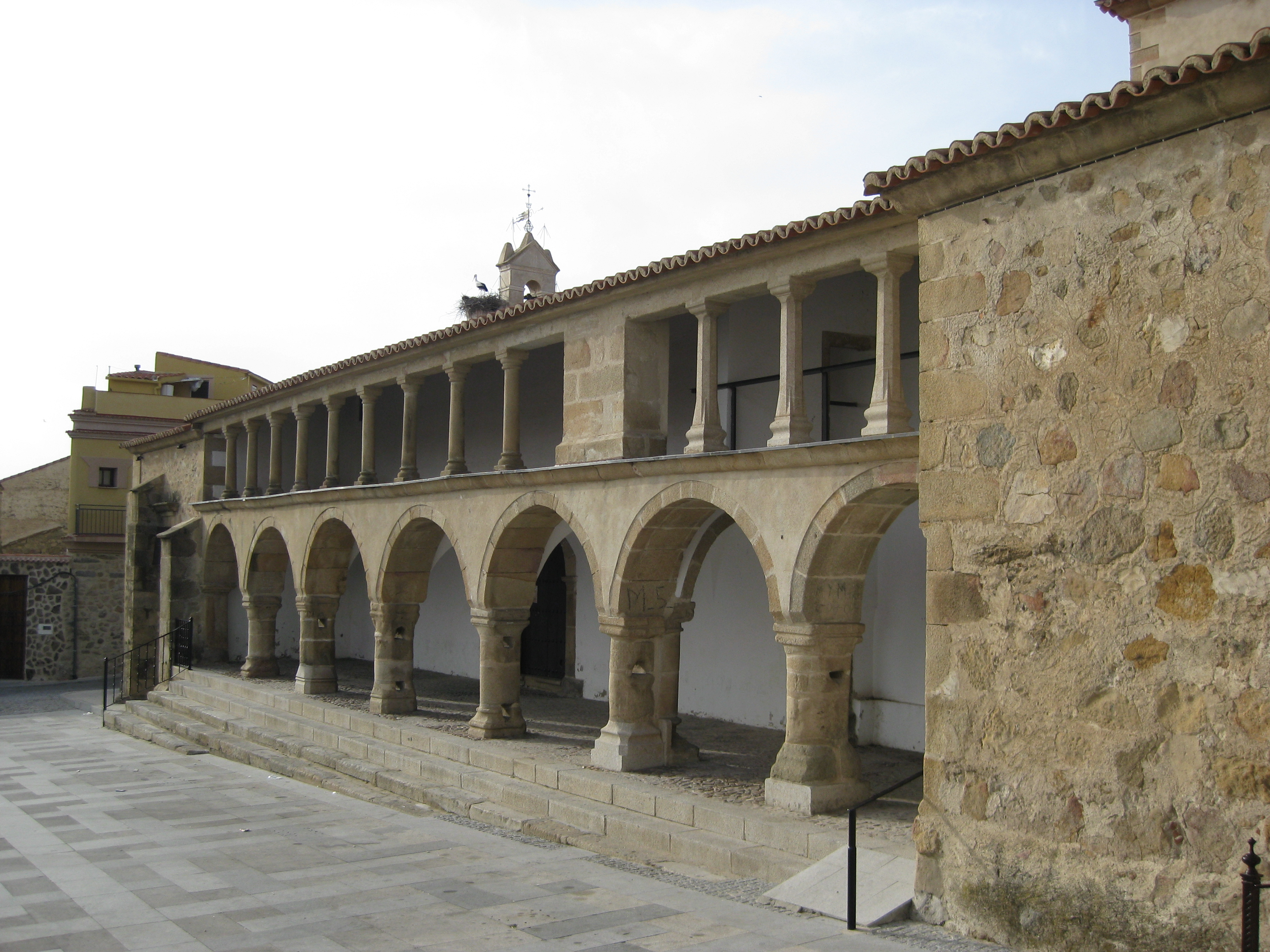 Almoharín